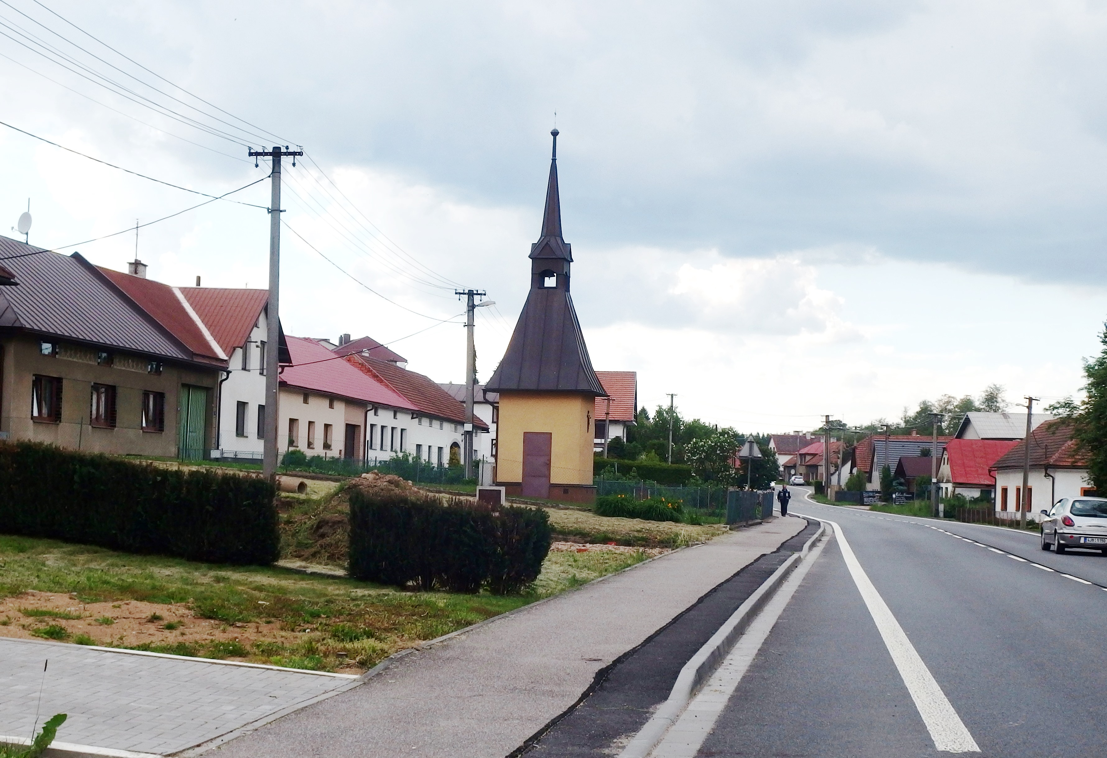 Sazomín, Žďár nad Sázavou District, Czechia.